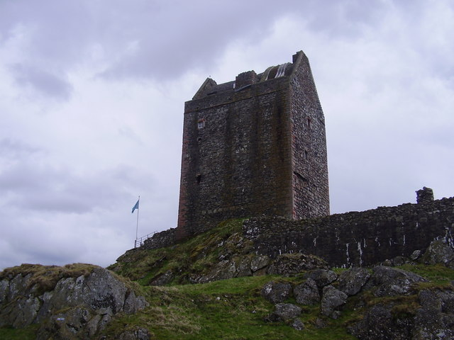 Smailholm Tower The Tower, near the village of the same name was once the home of the Pringle family. The 15th century structure is now in the care of Historic Scotland.